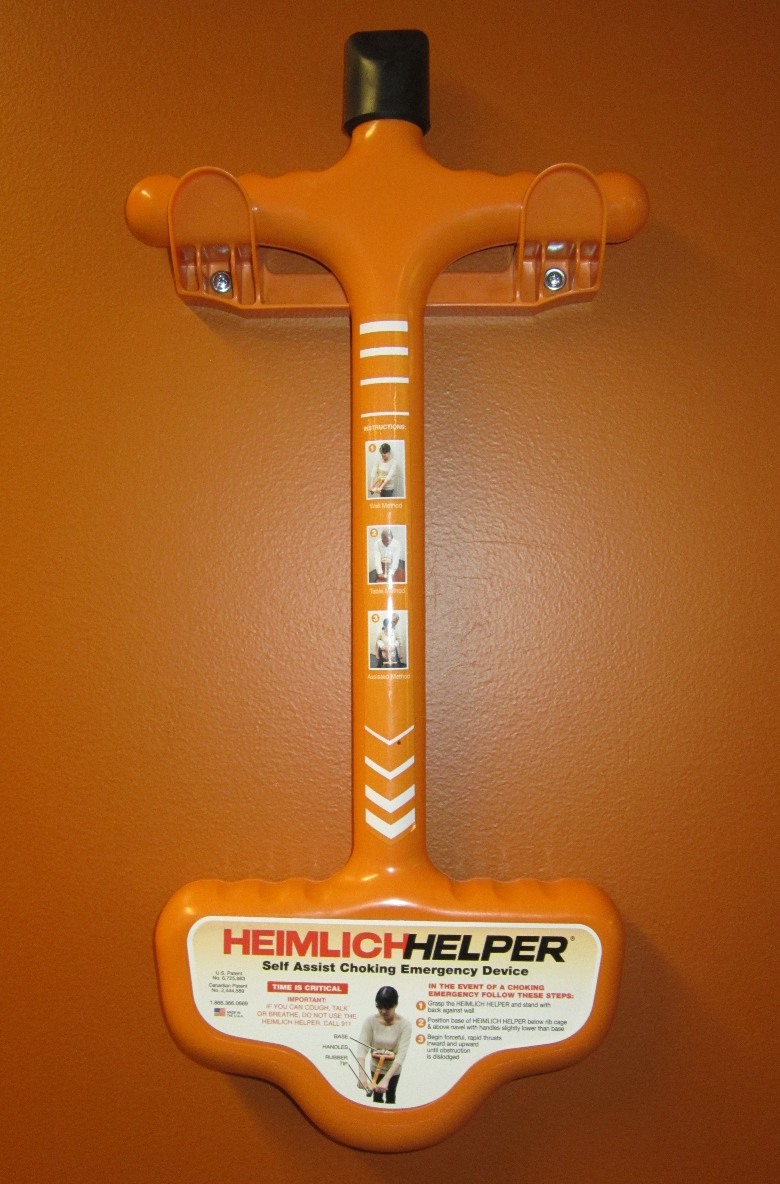 An apparatus to help one do the Heimlich on themselves as see at a restaurant at UCSF For more information visit